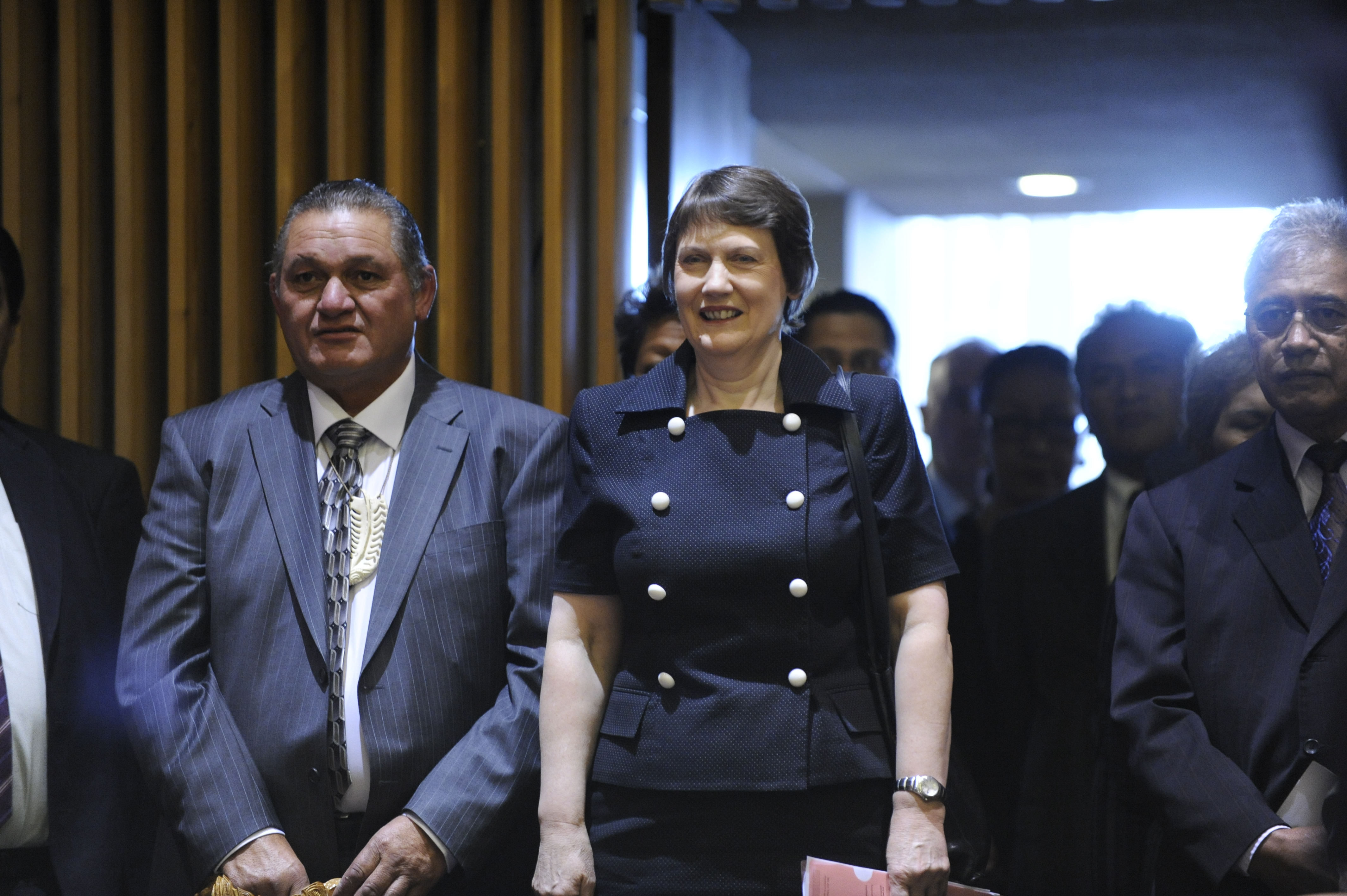 King Tuheita, Helen Clark, and Tumu te Heuheu at New York, April 2, 2009—The halls of the United Nations echoed with singing and chanting today during the colorful and lively traditional Maori ceremony to welcome UNDP Administrator Helen Clark. The event, called a powhiri, began with the thunderous sounding of a conch shell and a Maori warrior’s dance, and ended with Helen Clark, the former Prime Minister of New Zealand, and her Māori delegation pressing noses with senior UN officials in a “hongi.”